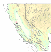 A schematic of the Green Valley Fault in California.